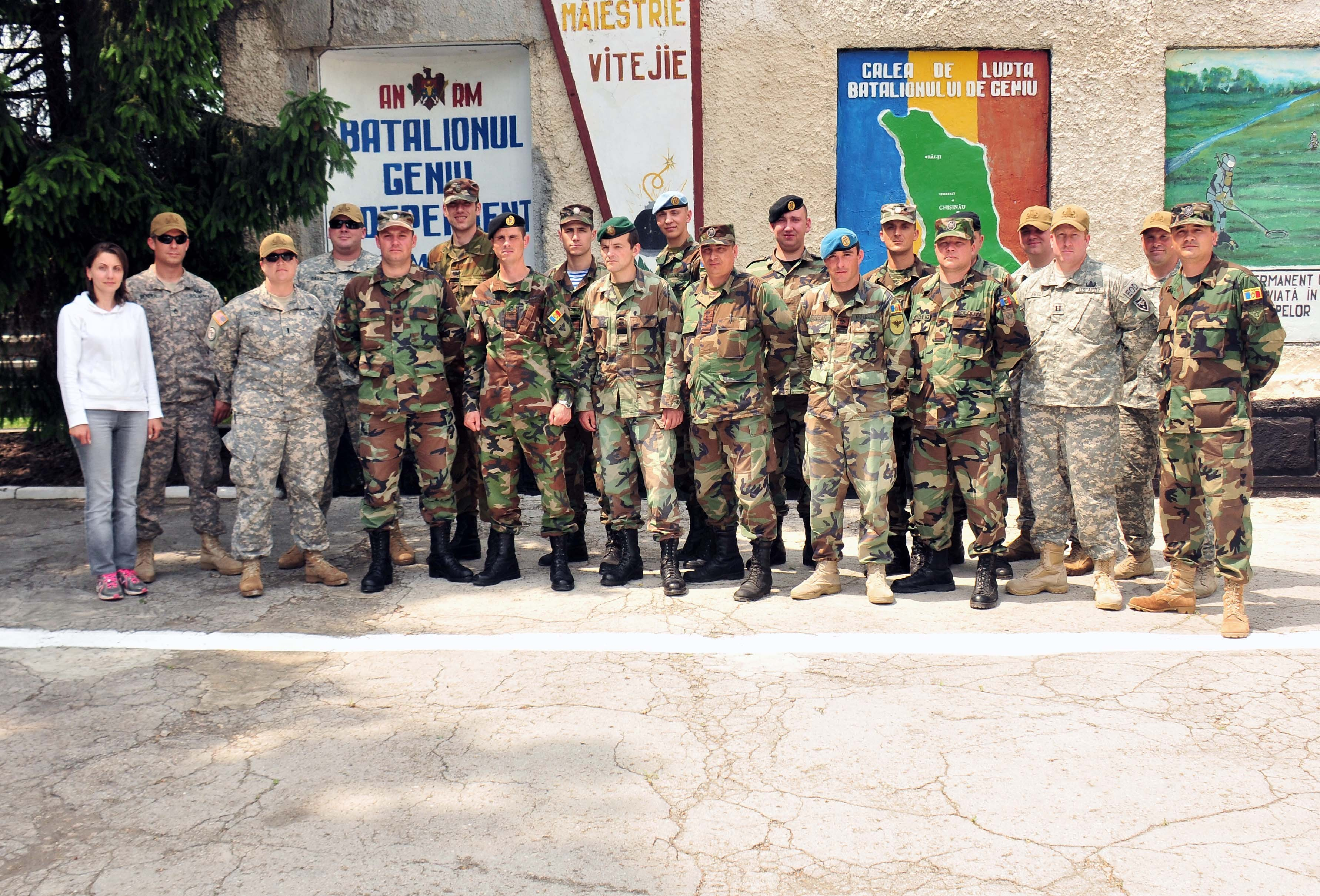 For three weeks, Moldovan engineers and soldiers of North Carolina National Guard’s 430th Explosive Ordnance Disposal (EOD) Company conducted HMA. Training side-by-side, they shared the latest tactics, techniques and procedures in eliminating landmine hazards in order to return the land to productive economic use and development. “I’m convinced that the strong partnership we have with the Moldovans and the training conducted here will result in a more robust demining operation in the country,” stated Capt. Chad Peele, commander of the 430th.